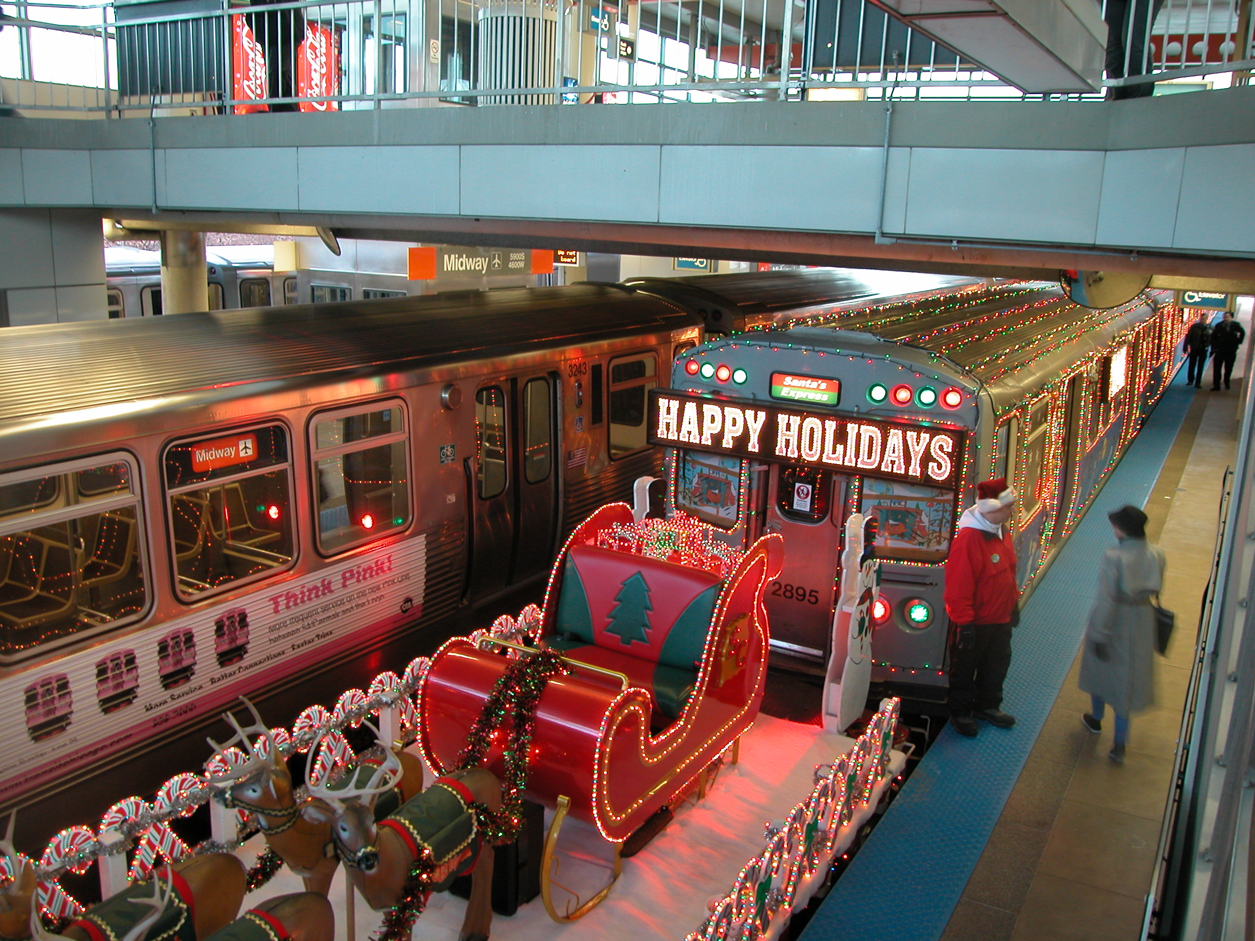 20061215 37 CTA Santa Train @ Midway